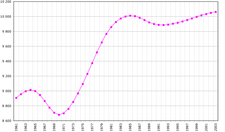 Subject : Portugal's population (1961-2003). Source : Data FAOSTAT, year 2005 : (last updated 11th february 2005) Y-axis : Number of inhabitants in thousands.